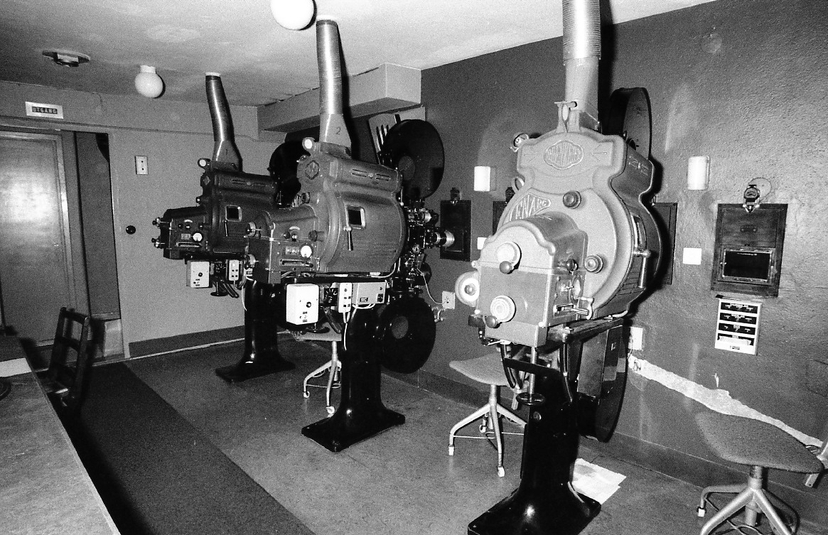 Projection Booth of The Esplanad/Parkett Theater in Stockholm, Sweden, with three Ernemann VII b projectors of 1936 model.